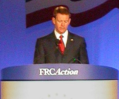 Tony Perkins in 2007 in Washington, DC at the Values Voters conference